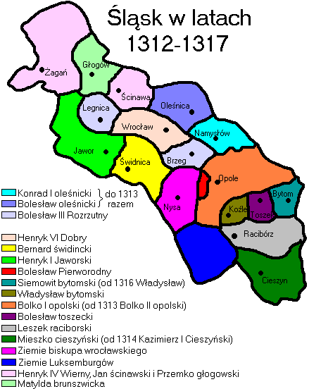 Political divisions of Silesia (1312-1317)